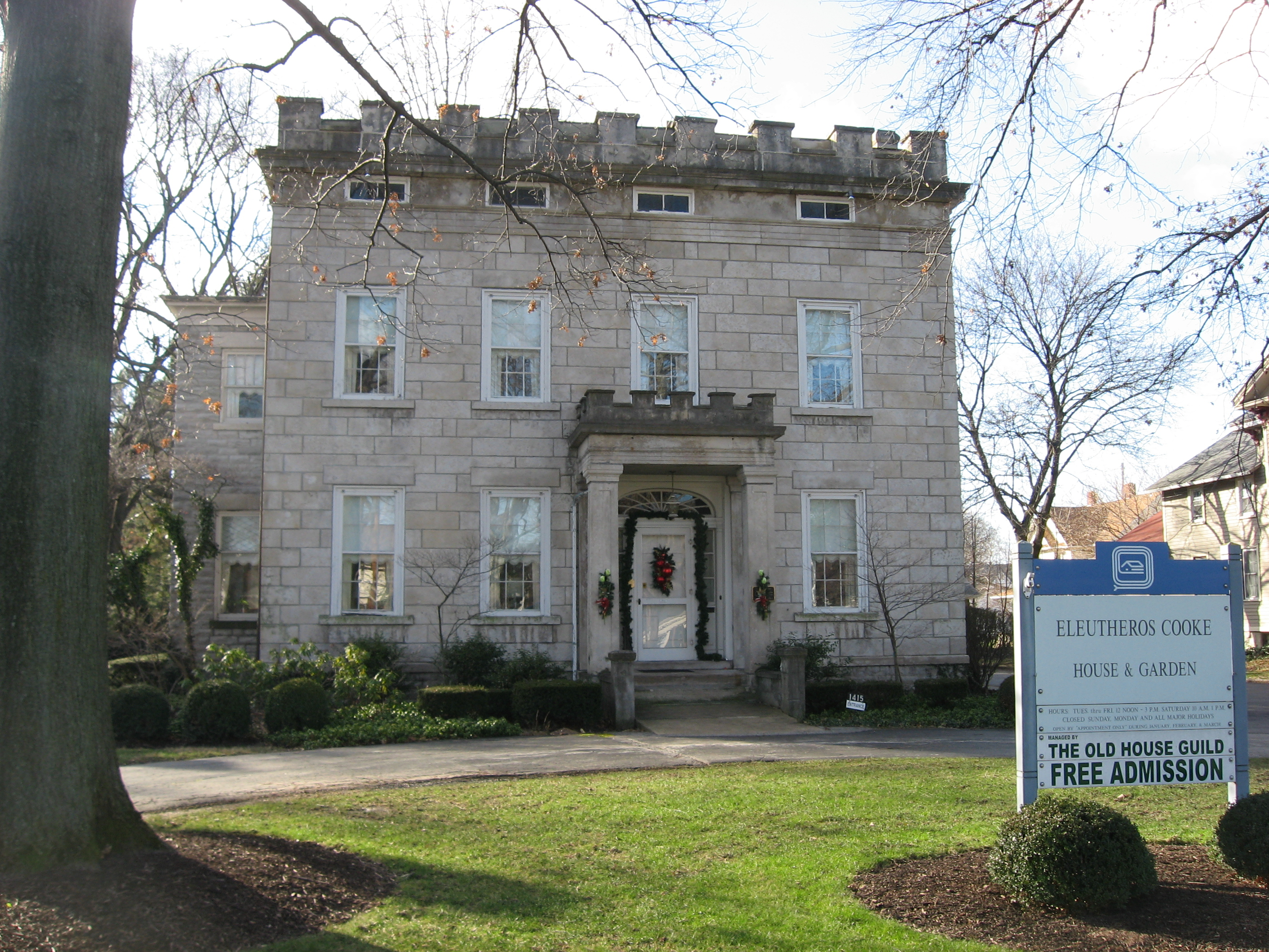 Front of the Eleutheros Cooke House, located at 1415 Columbus Avenue in Sandusky, Ohio, United States. Built in 1844 and moved to this spot in 1874, it is listed on the National Register of Historic Places.